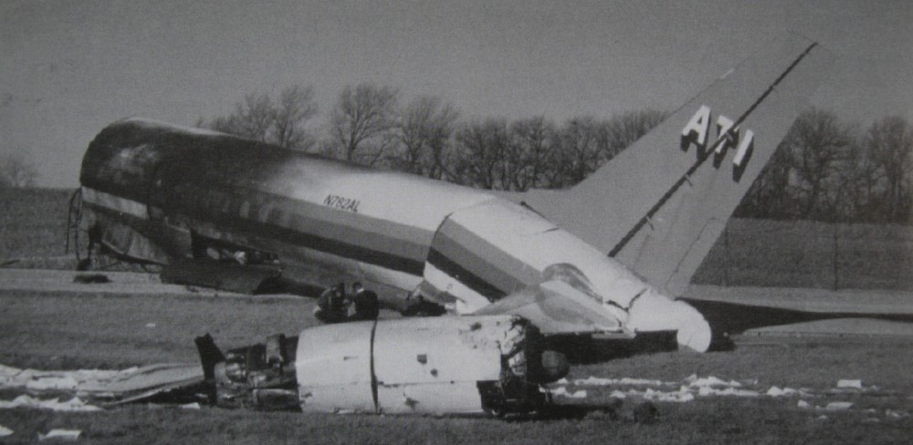 ATI N782AL wreckage